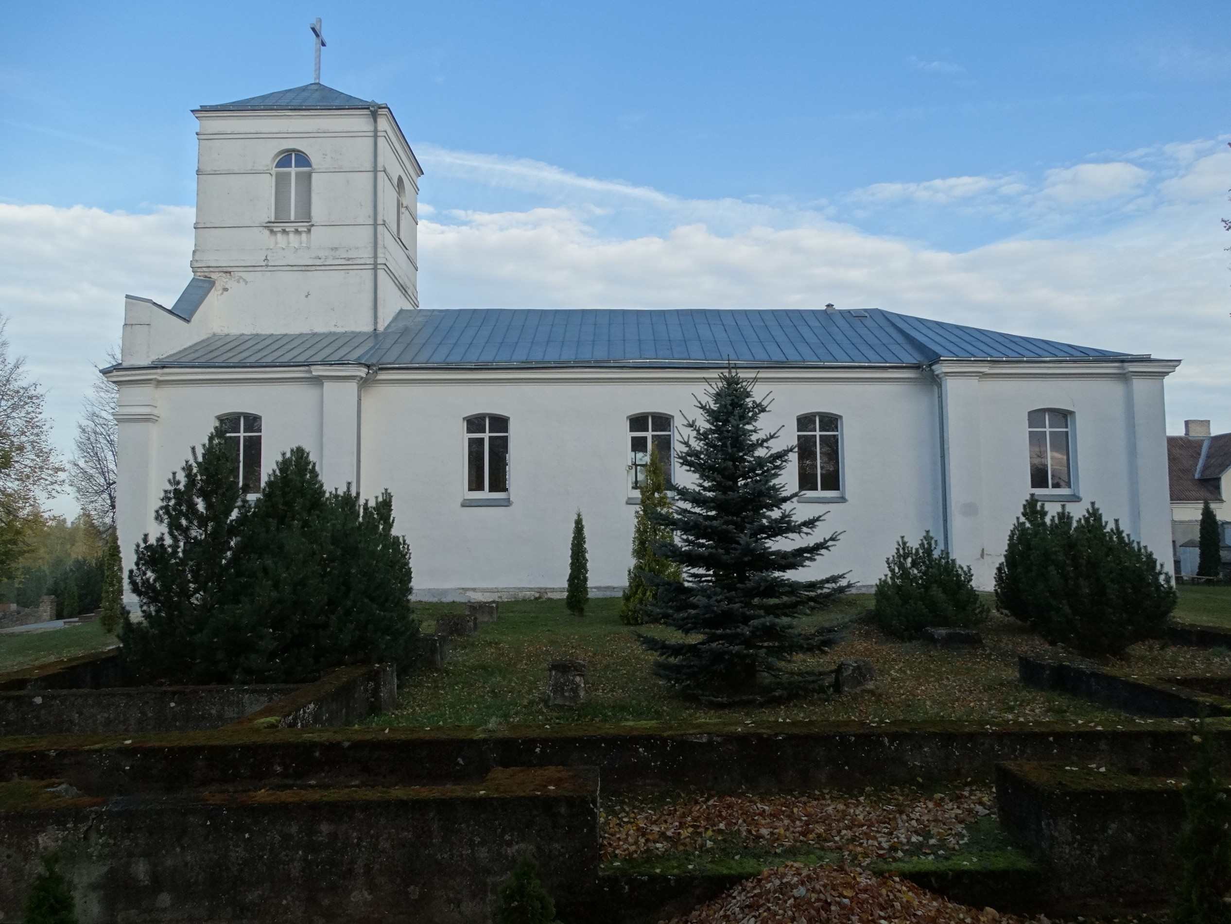 Roman Catholic Church, Seirijai, Lithuania